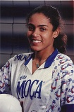 NESTLE TEAM